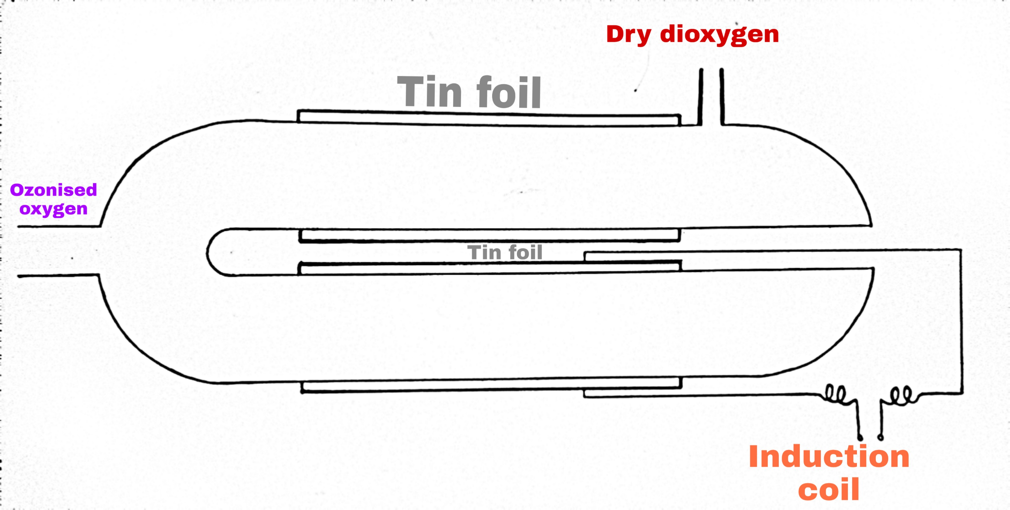 Pure, dry and cold oxygen is passed through the inlet. A silent discharge is passed through oxygen. 10% ozone is formed which is then collected and finally purified.